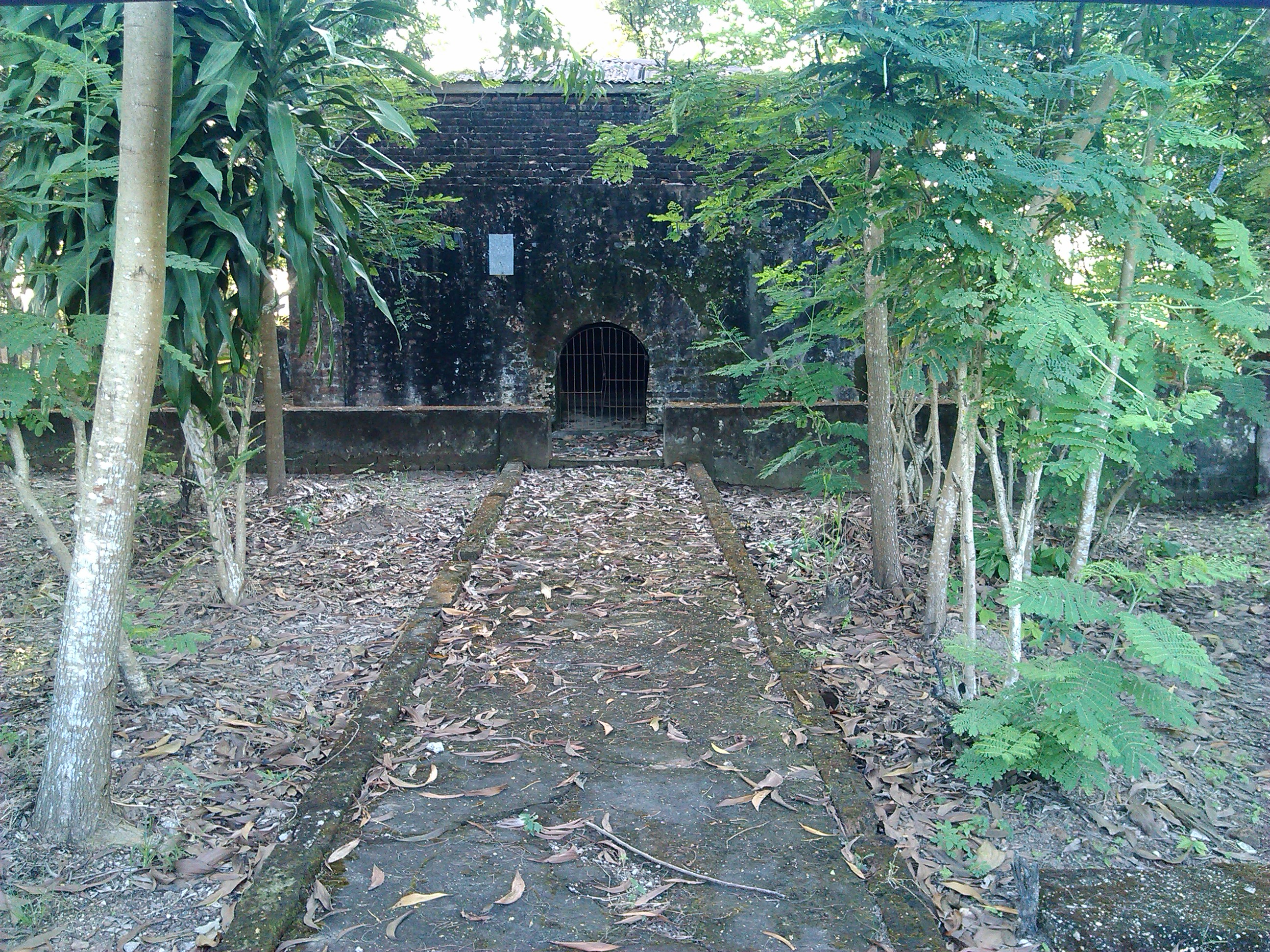 Poet WunGyi Padaethayarzar 1672-1752 (Minister PaDayThaYarZar) Mausoleum near Kyaik Khauk Pagoda, Thanlyin မြန်မာဘာသာ: စာဆိုရှင် ဝန်ကြီးပဒေသဇာရာ (၁၆၇၂-၁၇၅၂) ဂူဗိမာန်၊ ကျိုက်ခေါက်ဘုရားအနီး၊ သန်လျင်မြို့